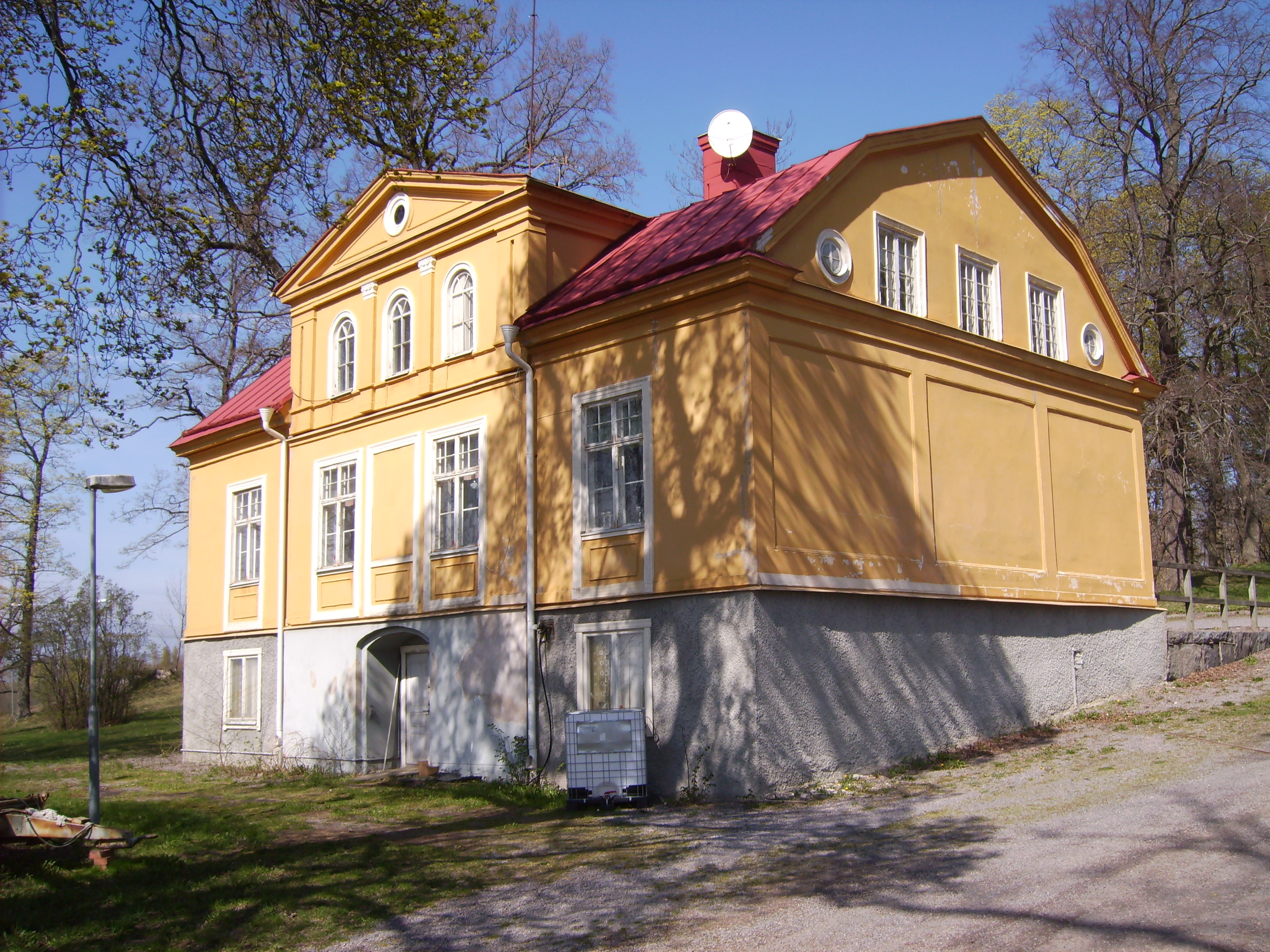 Photo by Harri Blomberg.